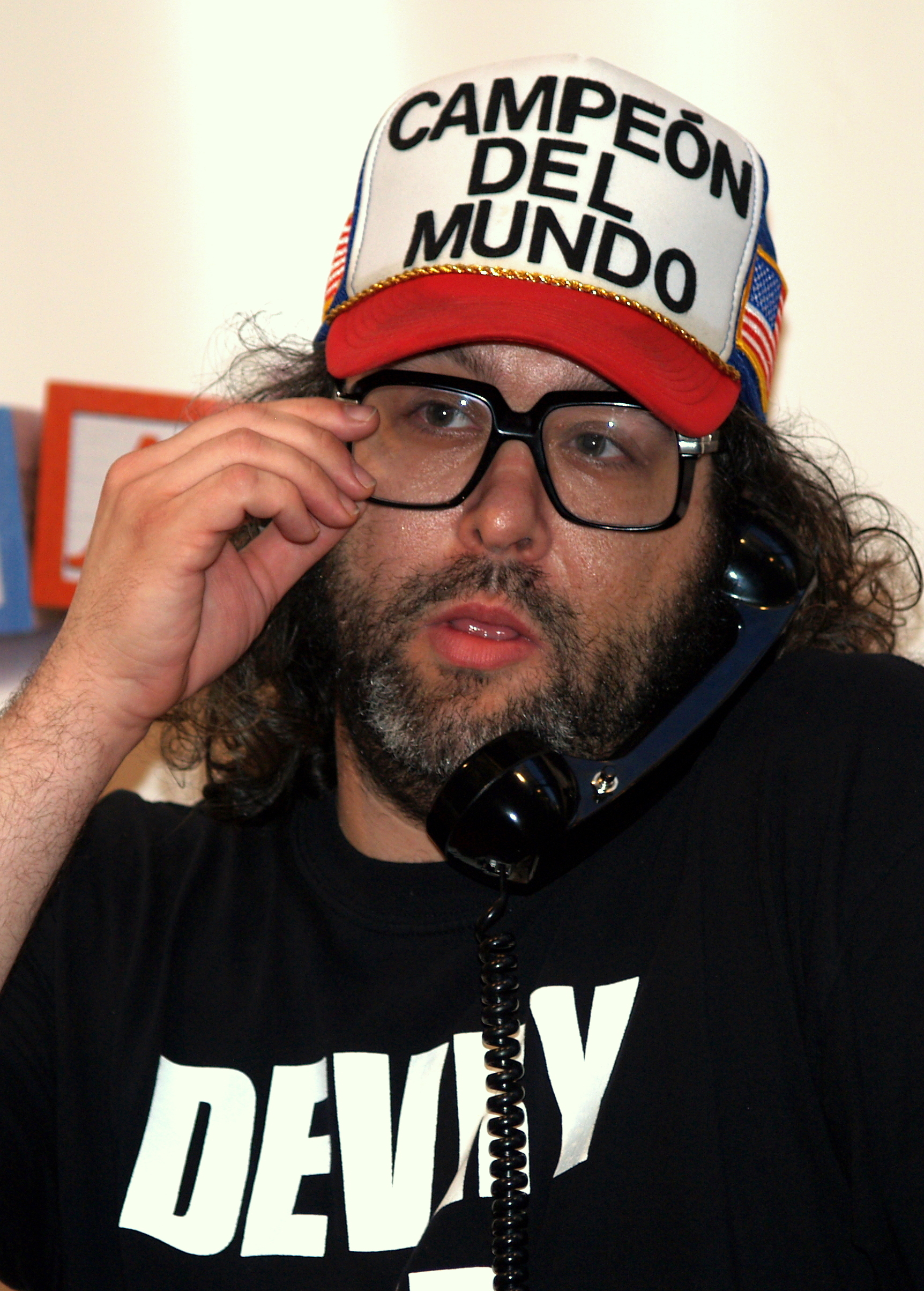 Judah Friedlander at the premiere of Baby Mama in New York City at the 2008 Tribeca Film Festival.